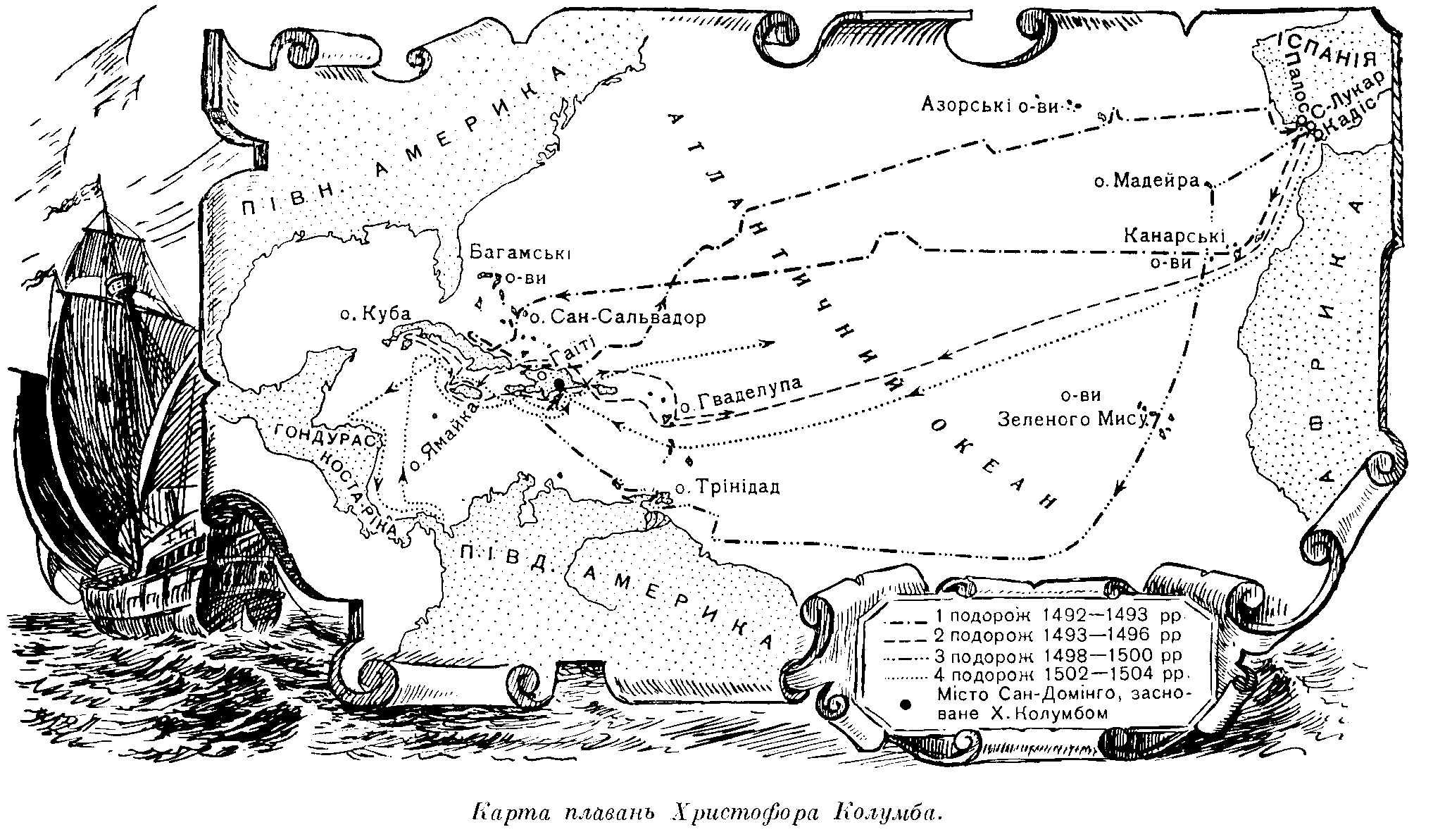 Map of swimming of Christopher Kolumba, from the Child's encyclopaedia